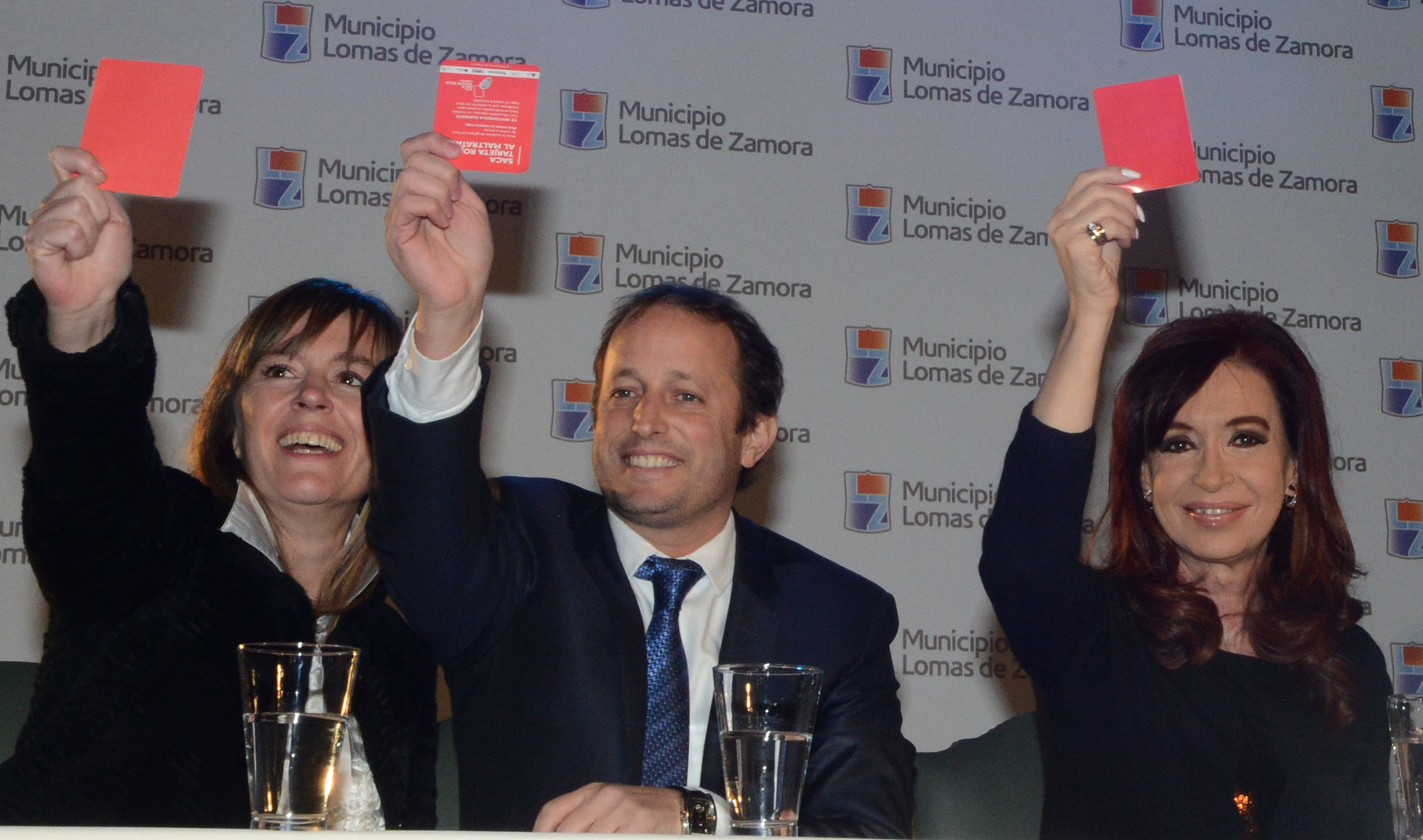 Juliana Di Tullio, Martín Insaurralde and President Cristina Fernández during the 2013 legislative elections campaign.